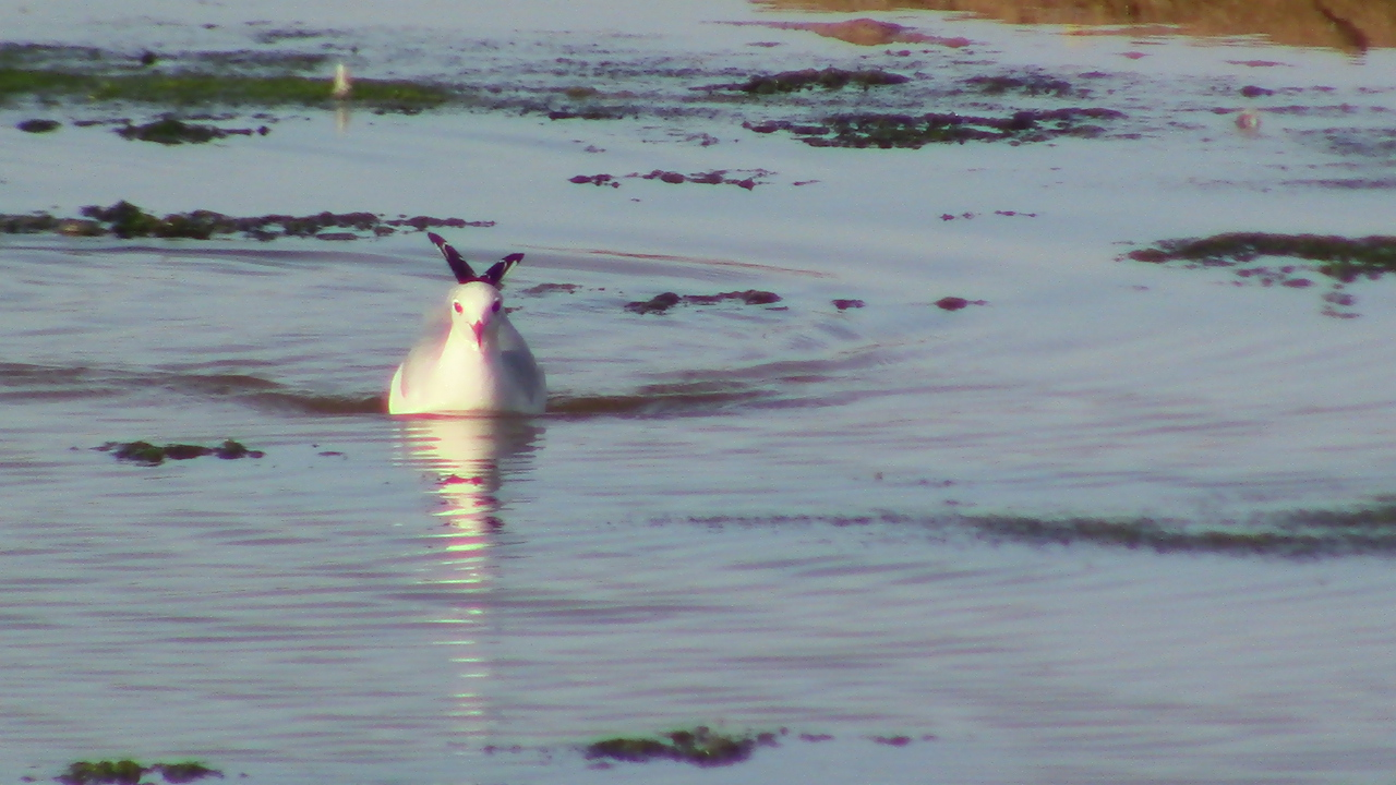 Sidi Moussa Lagoon Nature Preserve - View